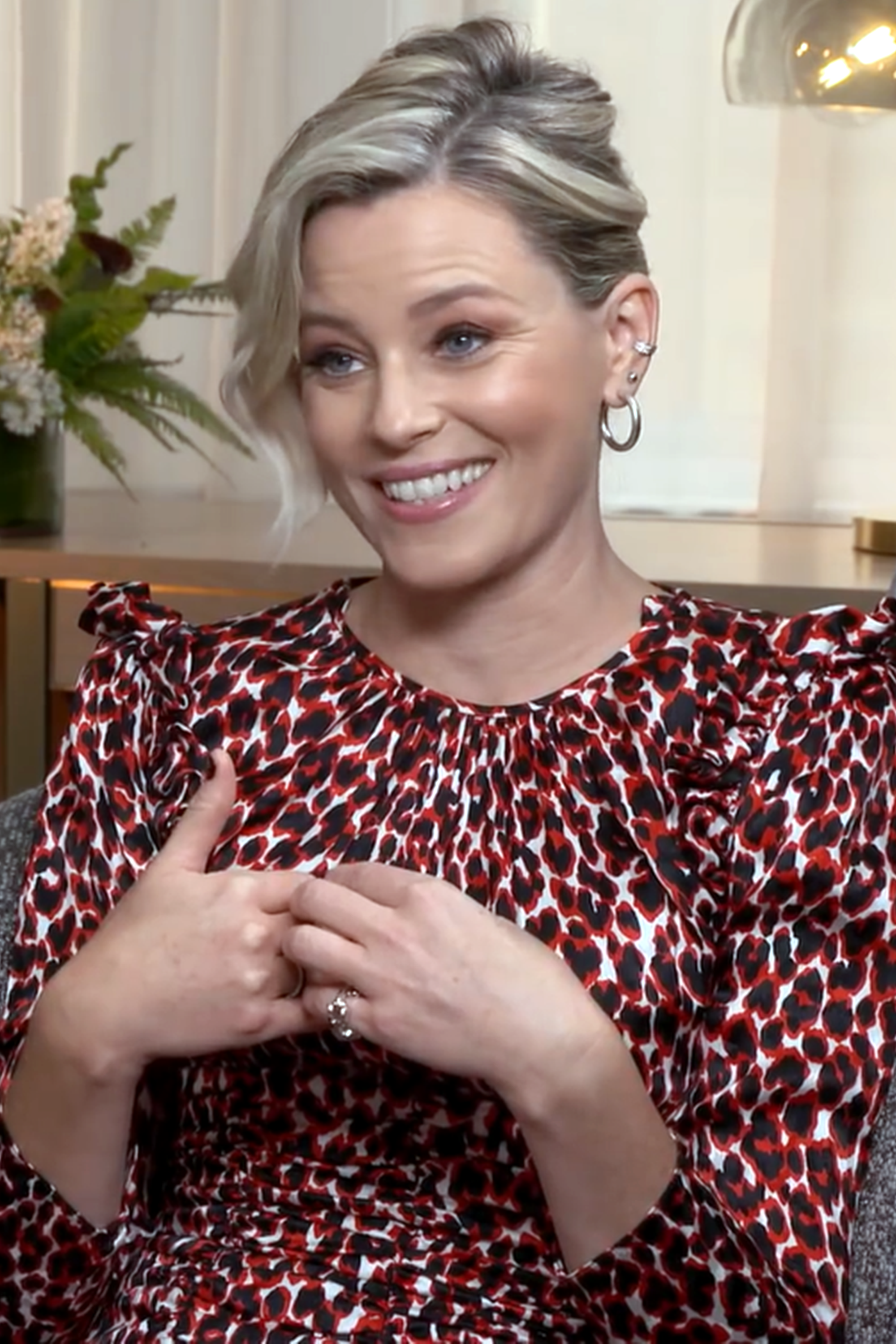 Elizabeth Banks during interview, November 2019.